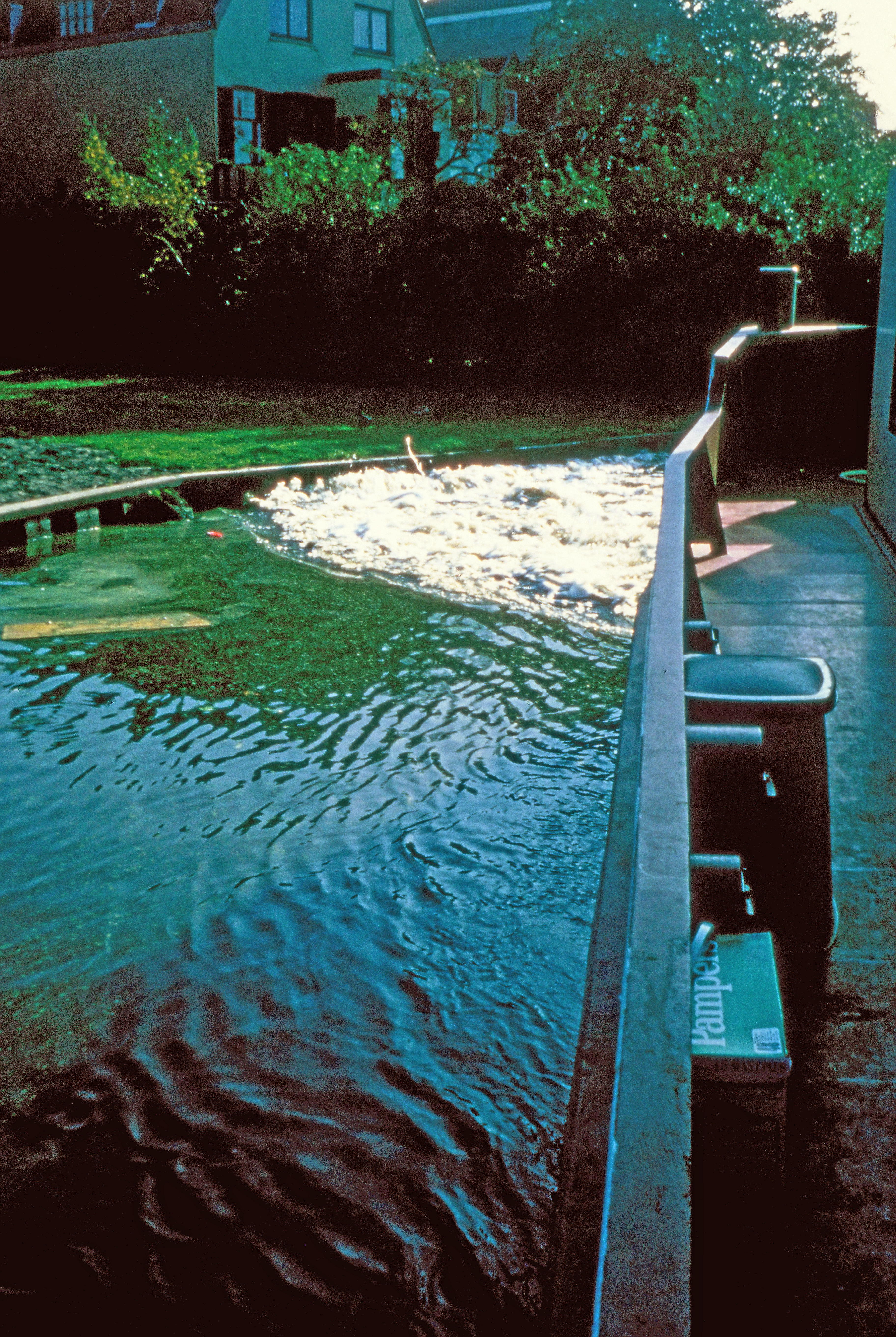 A propeller jet near Overschie, Netherlands against a steel sheetpile